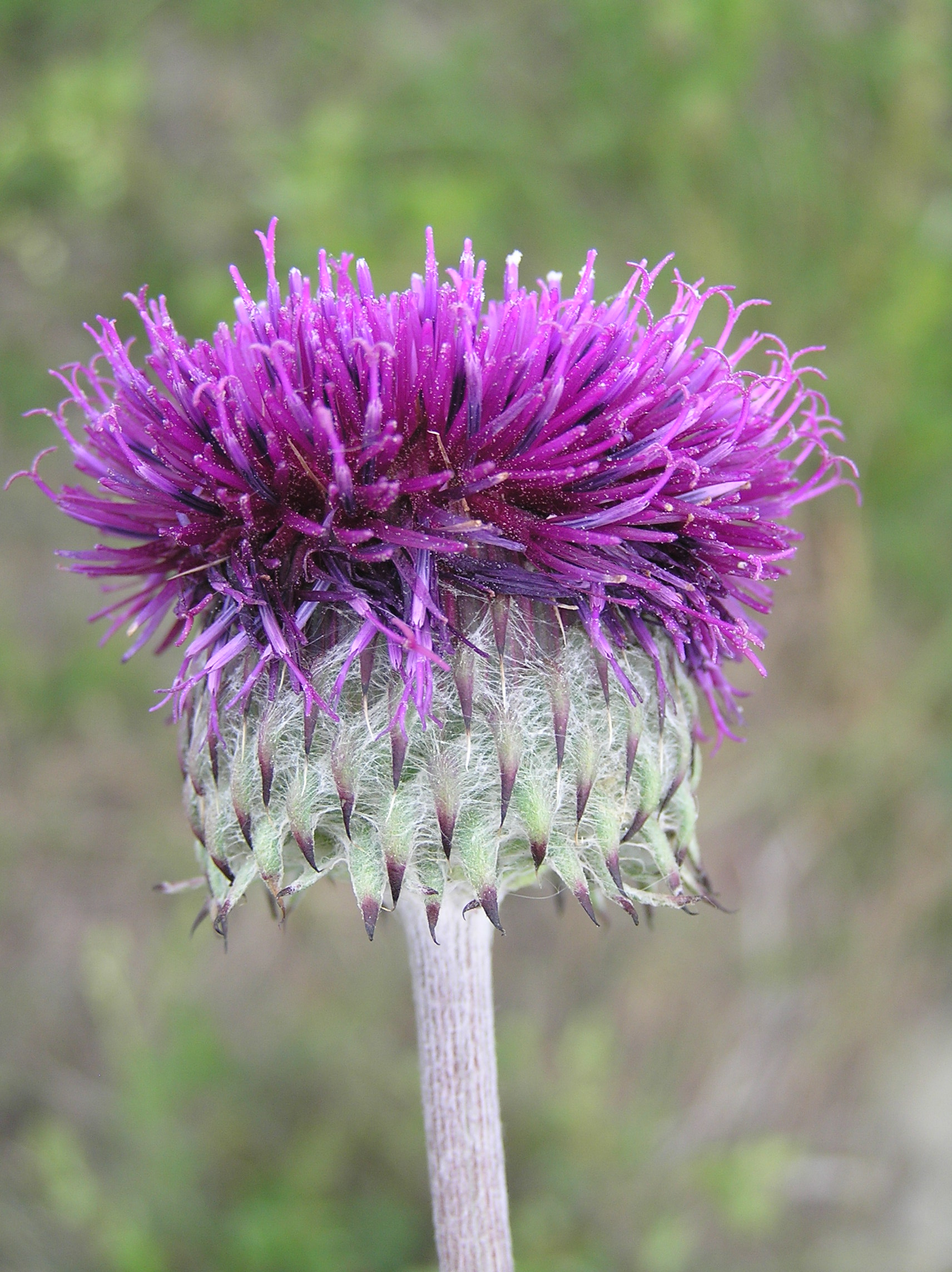 Jurinea mollis, Pouzdřany, Southern Moravia, Czech Republic